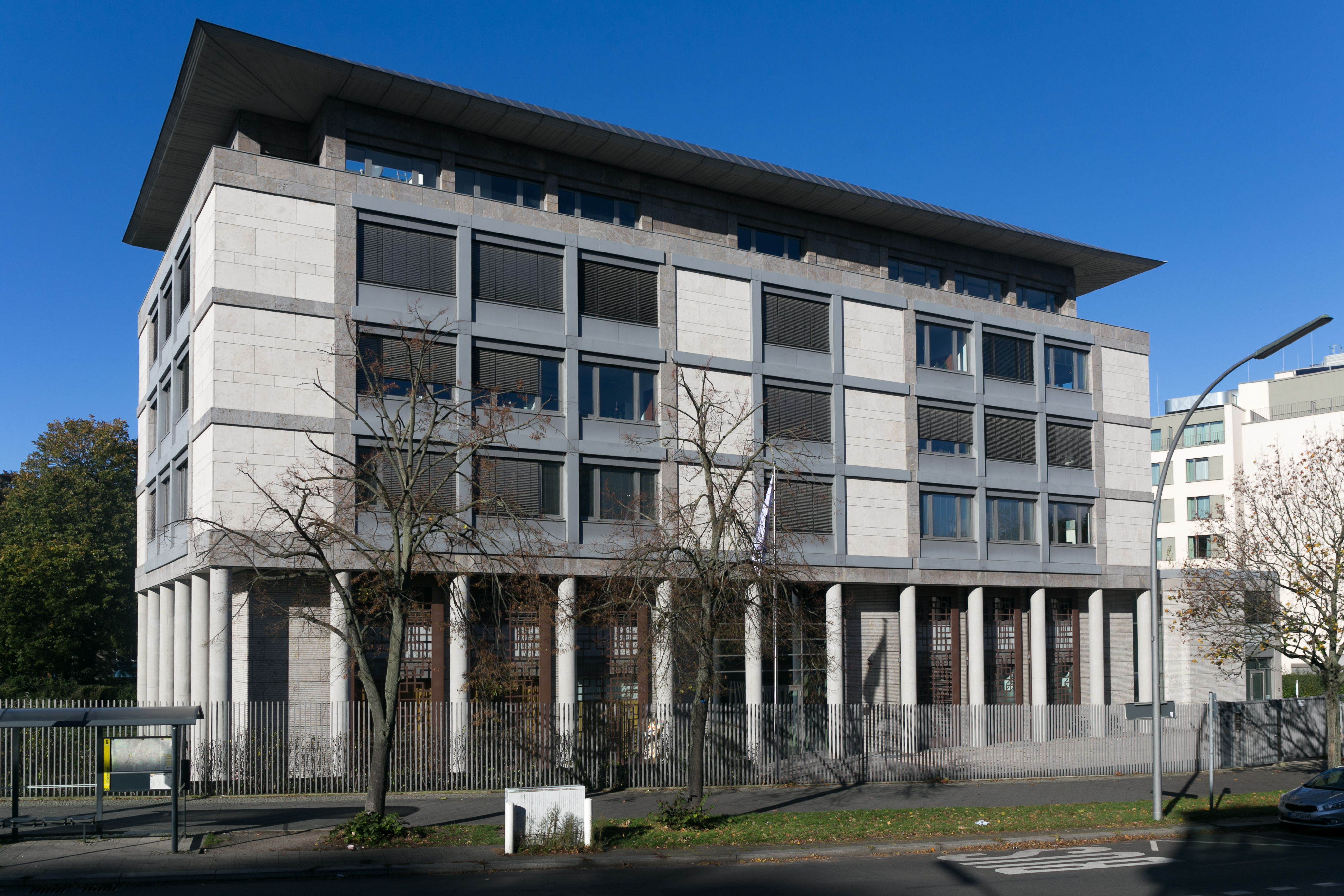 Post-conference city tour, WikidataCon 2017: Embassy of the Republic of Korea to Germany.